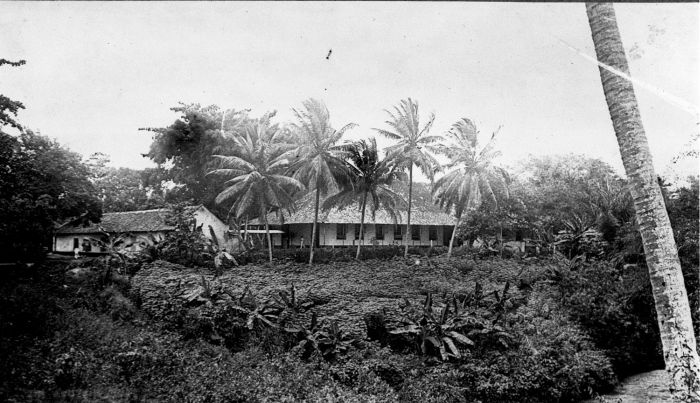 The hospital of Serang